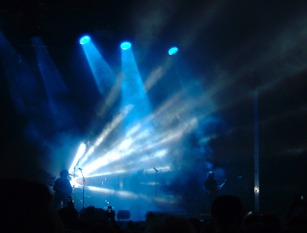 Eppu Normaali at Ratina stadion on 14th of August 2004. I just saw this photo on my screensaver and thought: "why haven't I posted this on Flickr?" So here it is—better late than never.